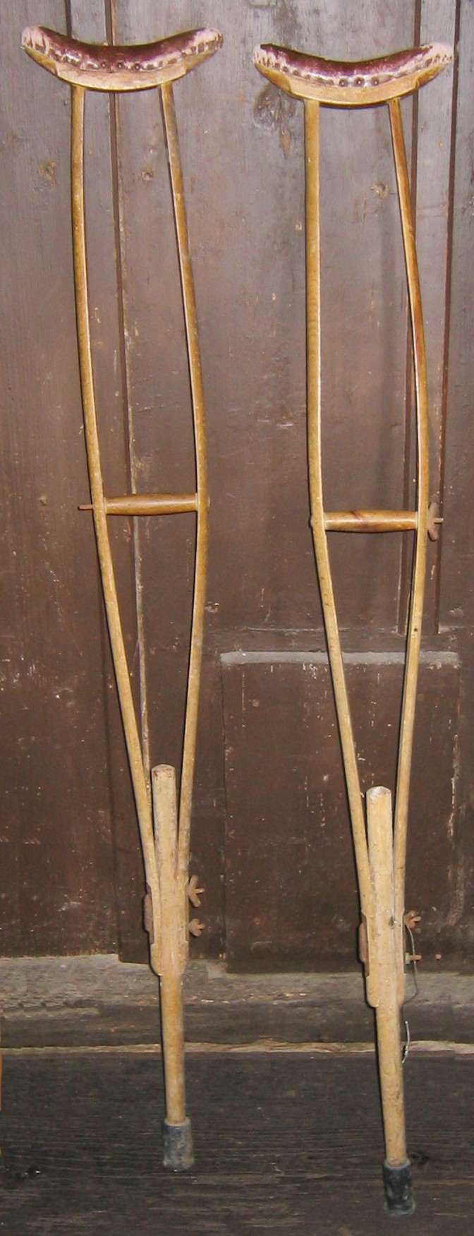 Crooks/crutches at the Freilichtmuseum Neuhausen ob Eck